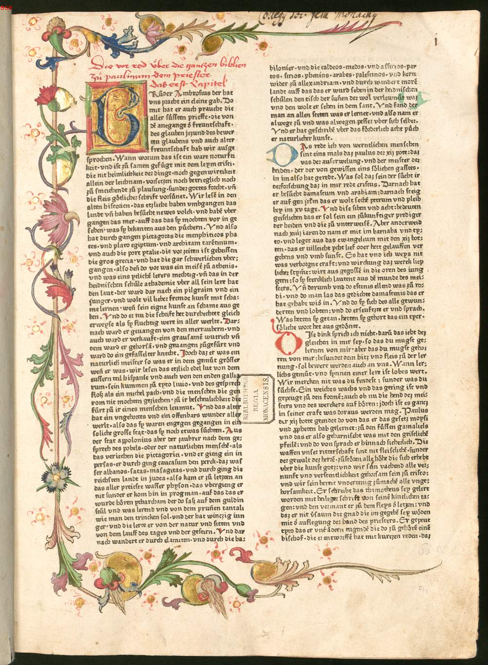 opening page of the Mentelin-Bibel of 1466, copy of the Bayerische Staatsbibliothek